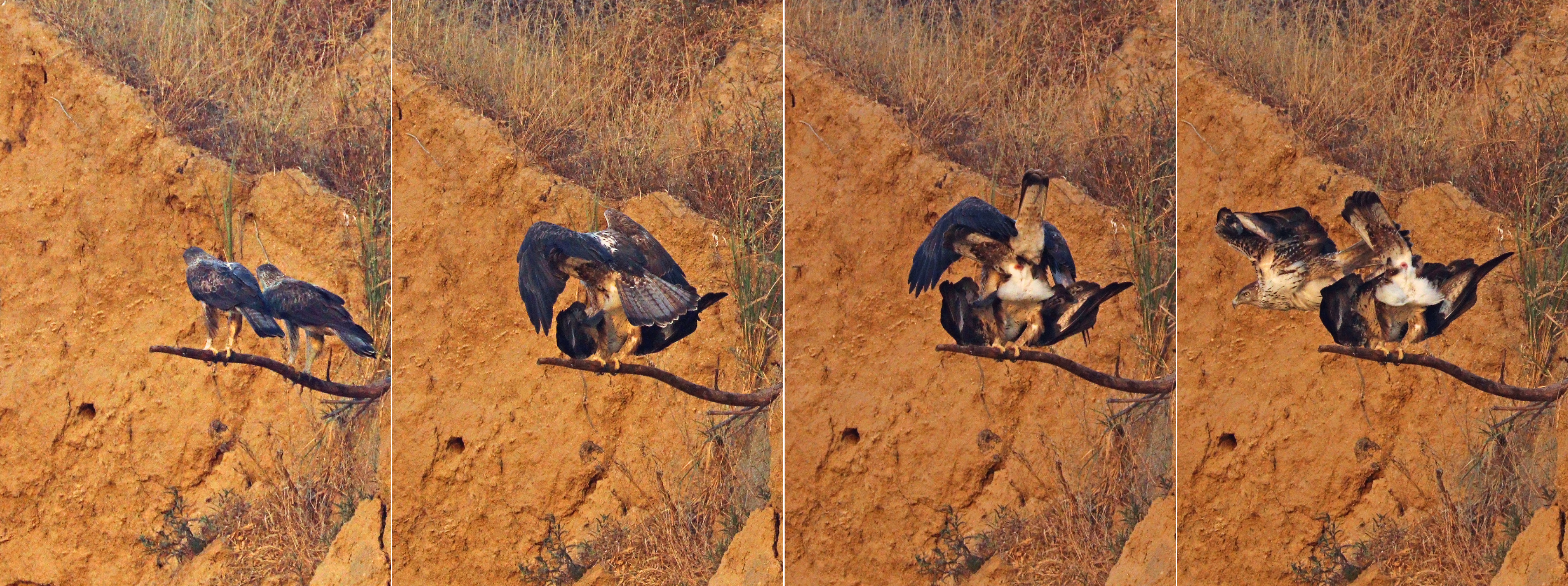 Bonelli's eagle (Aquila fasciata) mating composite, Chambal River, MP, India